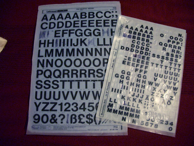 Two sheets of dry-transfer lettering. (The one on the left is made by Letraset, the one on the right is made by Transotype).